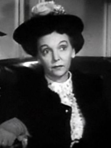 Screenshot of ZaSu Pitts from the trailer for the film Tish